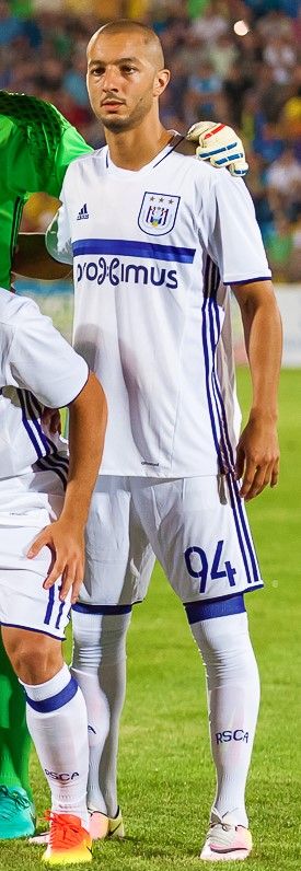 Sofiane Hanni